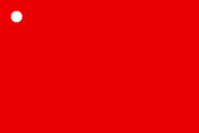 These are my own designs using MS Paint 2015 based upon illustrations and descriptions in Napisaola Alexandre Le Gras: Album des pavillons, guidons, flammes de toutes les puissances maritimes book published in 1864 on page 4. It is the command flag Vice Admiral of the Blue squadron flown at the top of the masthead in use from 1702 to 1864. In use in the Kingdom of Great Britain and United Kingdom.